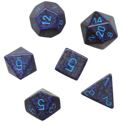 Typical dice of 4(Tetrahedron), 6(Hexahedron), 8(Octahedron), 10(Pentagonal deltohedron), 12(Dodecahedron) and 20(Icosahedron) faces.